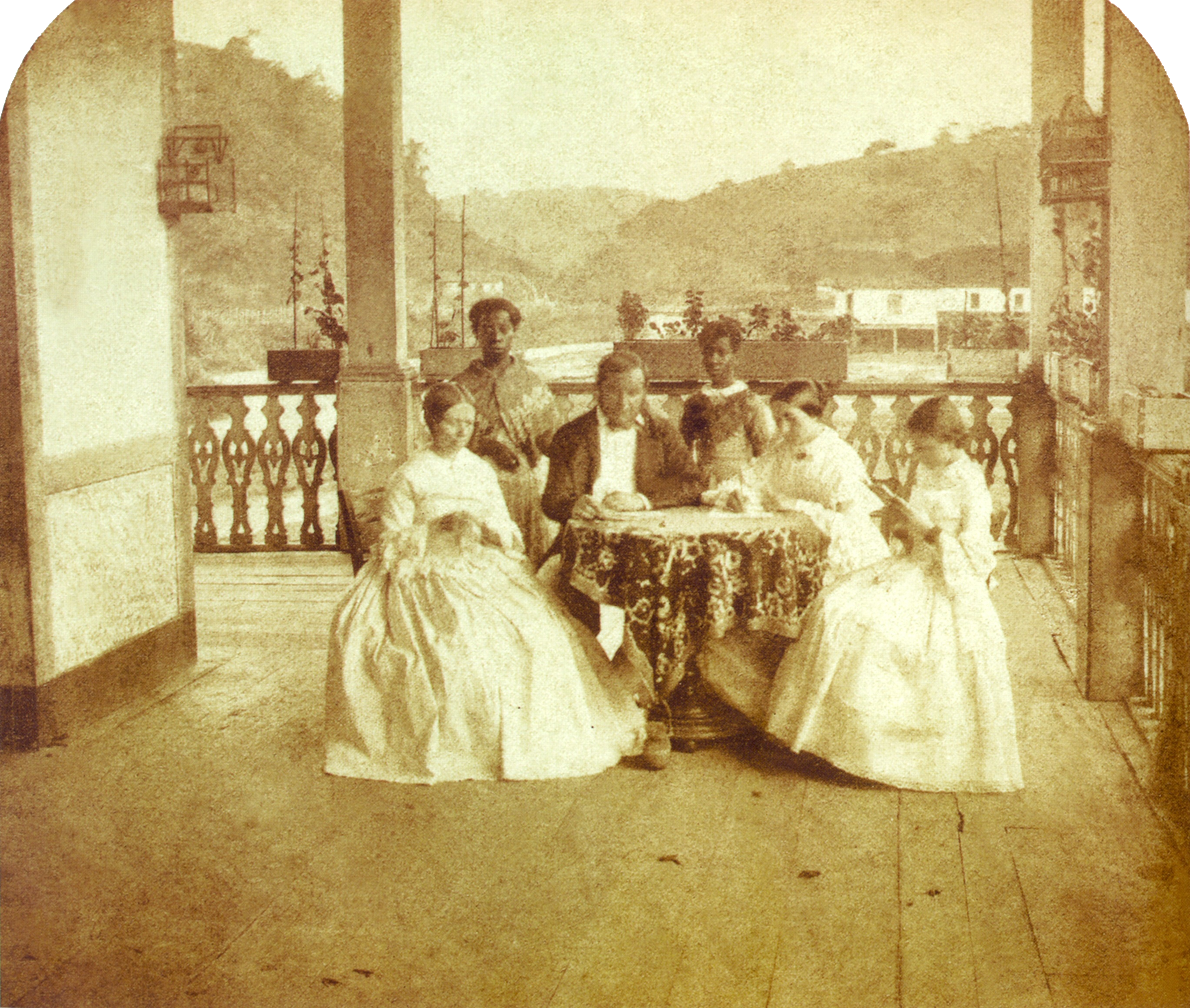 A family and its female slave house servants in Brazil, c.1860.